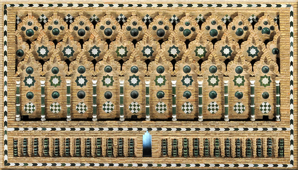 Detalle fachada Torre de El Salvador. Teruel